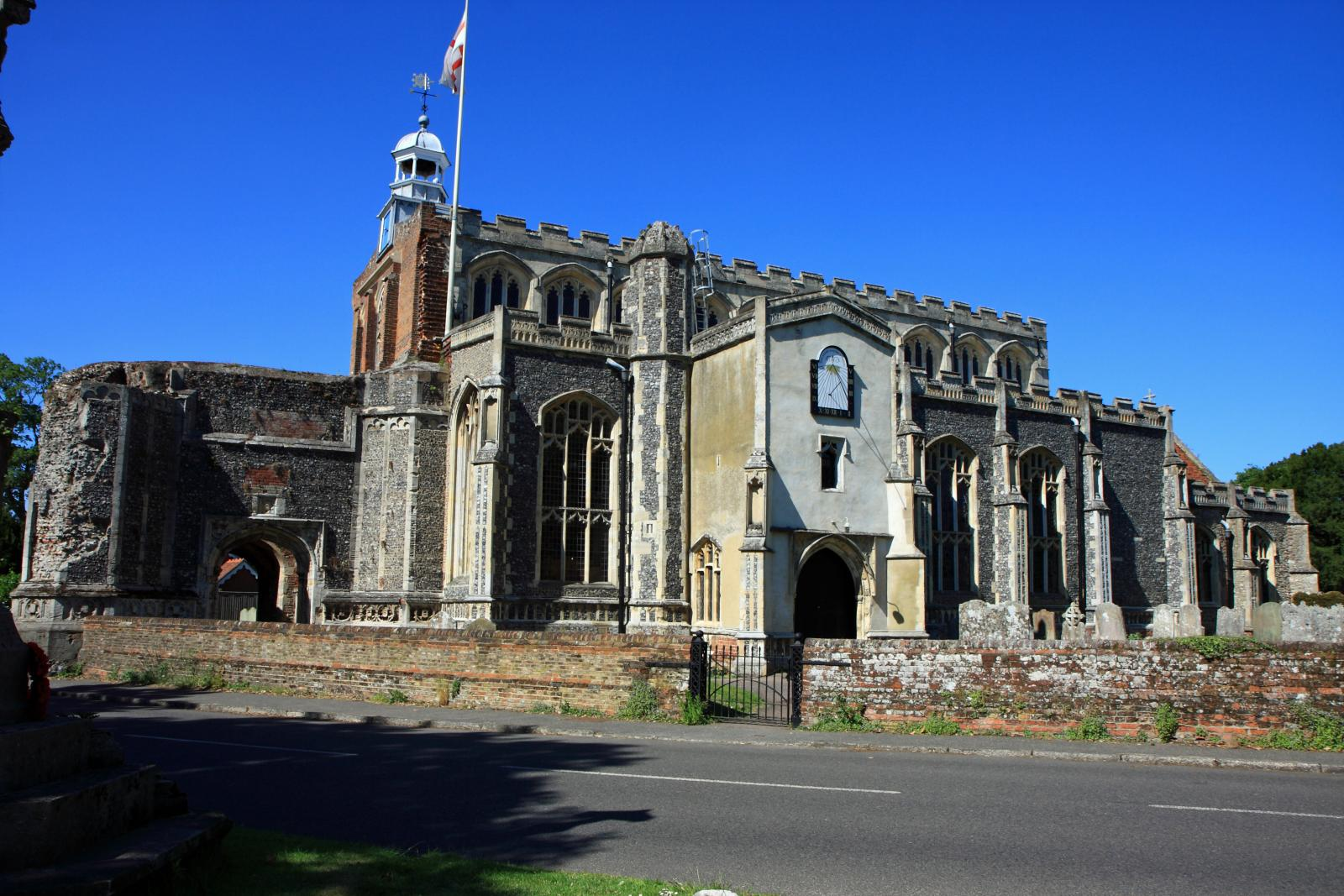 St Mary's parish church, East Bergholt, Suffolk, seen from the south